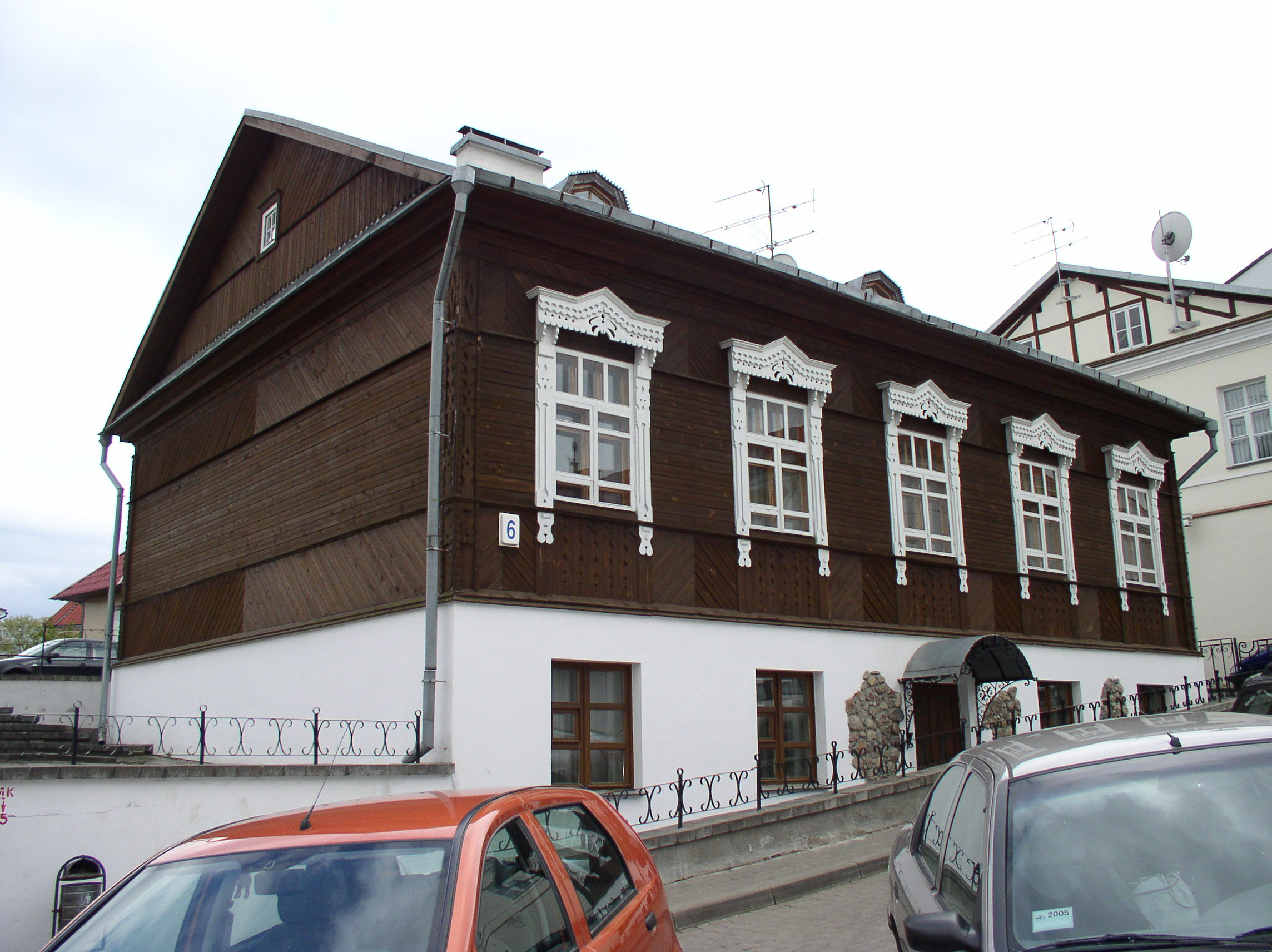 Hyertsen street, 6. Minsk, Belarus.